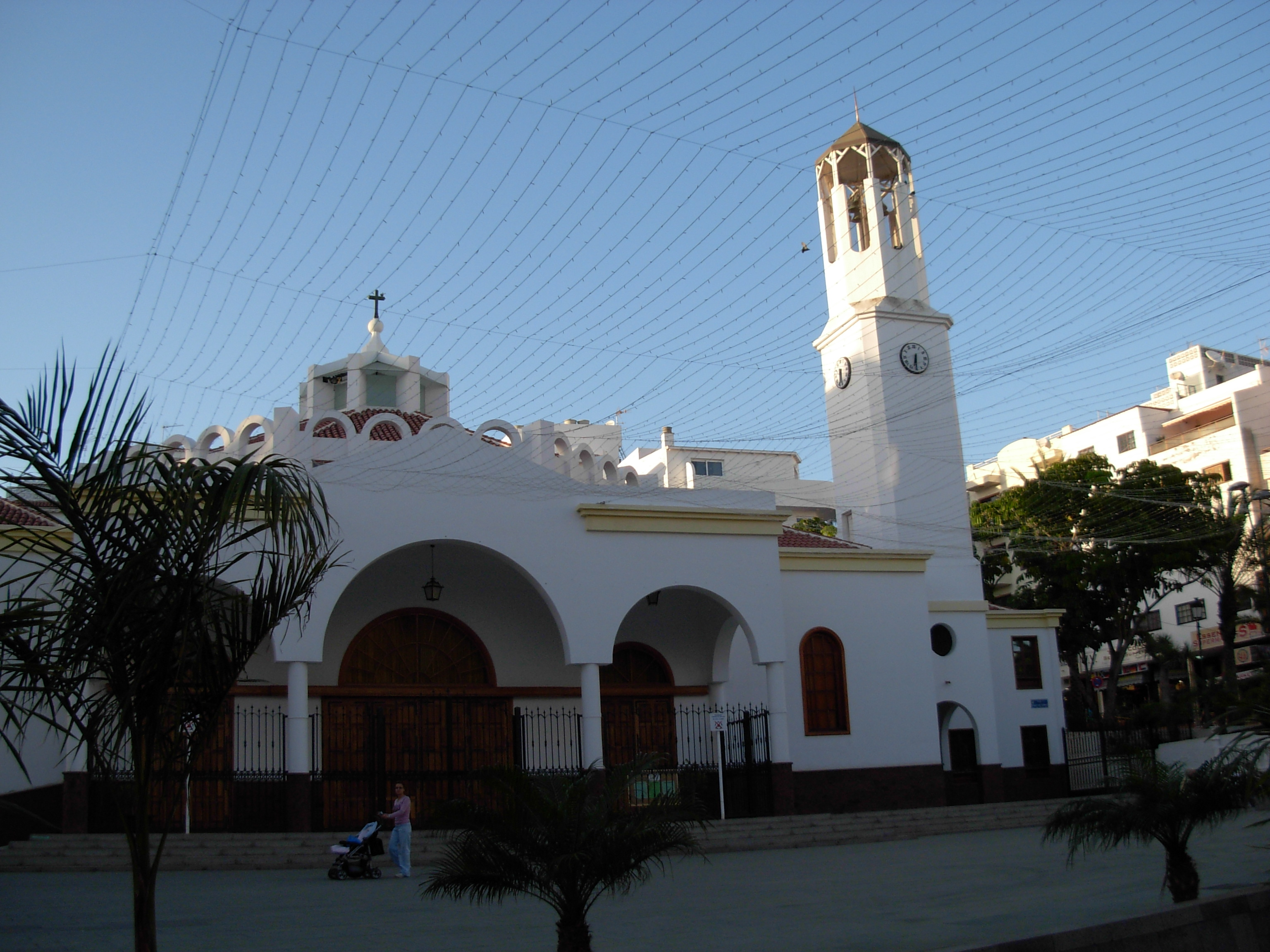 Church. Los Christianos.